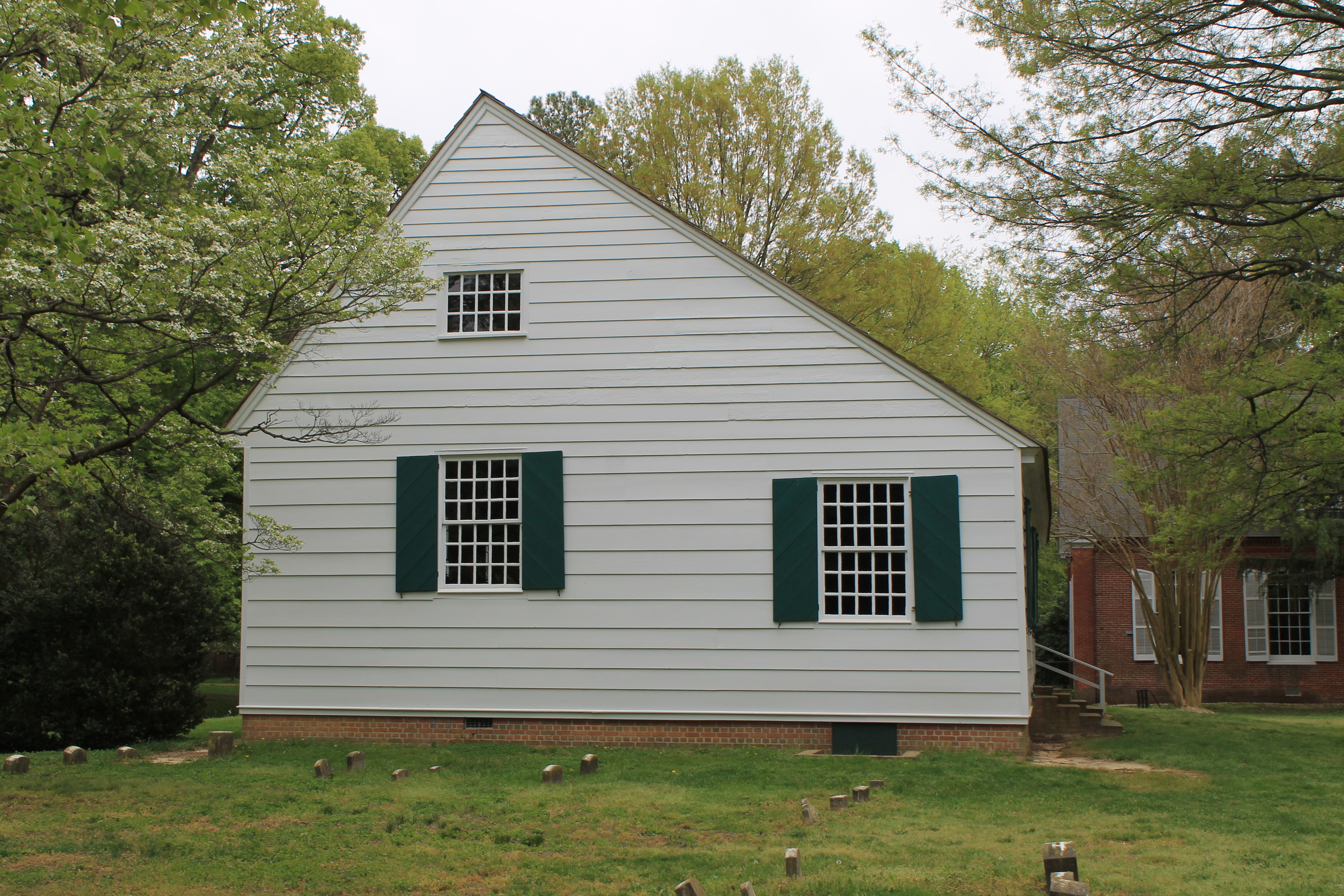 The original Quaker Meeting House in Talbot County, Maryland.